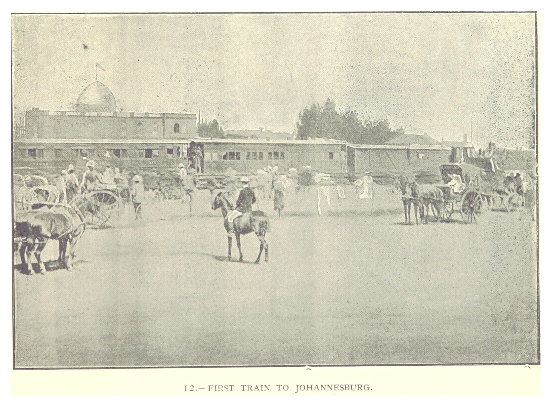 In 1886 gold was discovered in the South African Republic (or Transvaal). The Cape government and the government of the Orange Free State (OFS) reached an agreement, by which the Cape Government Railways would build and operate a railway line, through the OFS, to the rapidly-growing city of Johannesburg. This line reached Bloemfontein (the capital of the OFS) in 1890, and the first trains operated from Cape Town to Johannesburg in 1892.